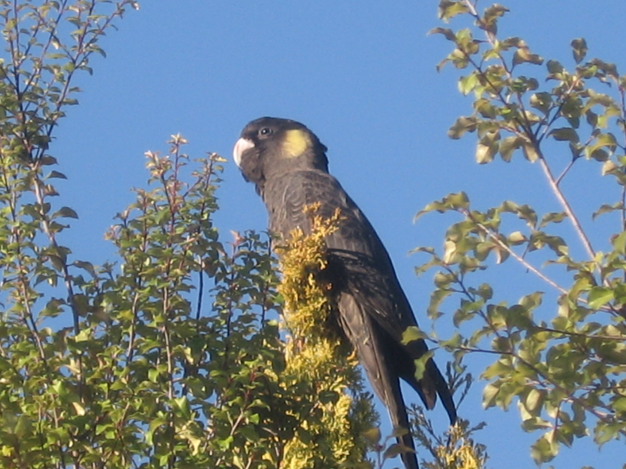 Yellow Tailed Black Cockatoo